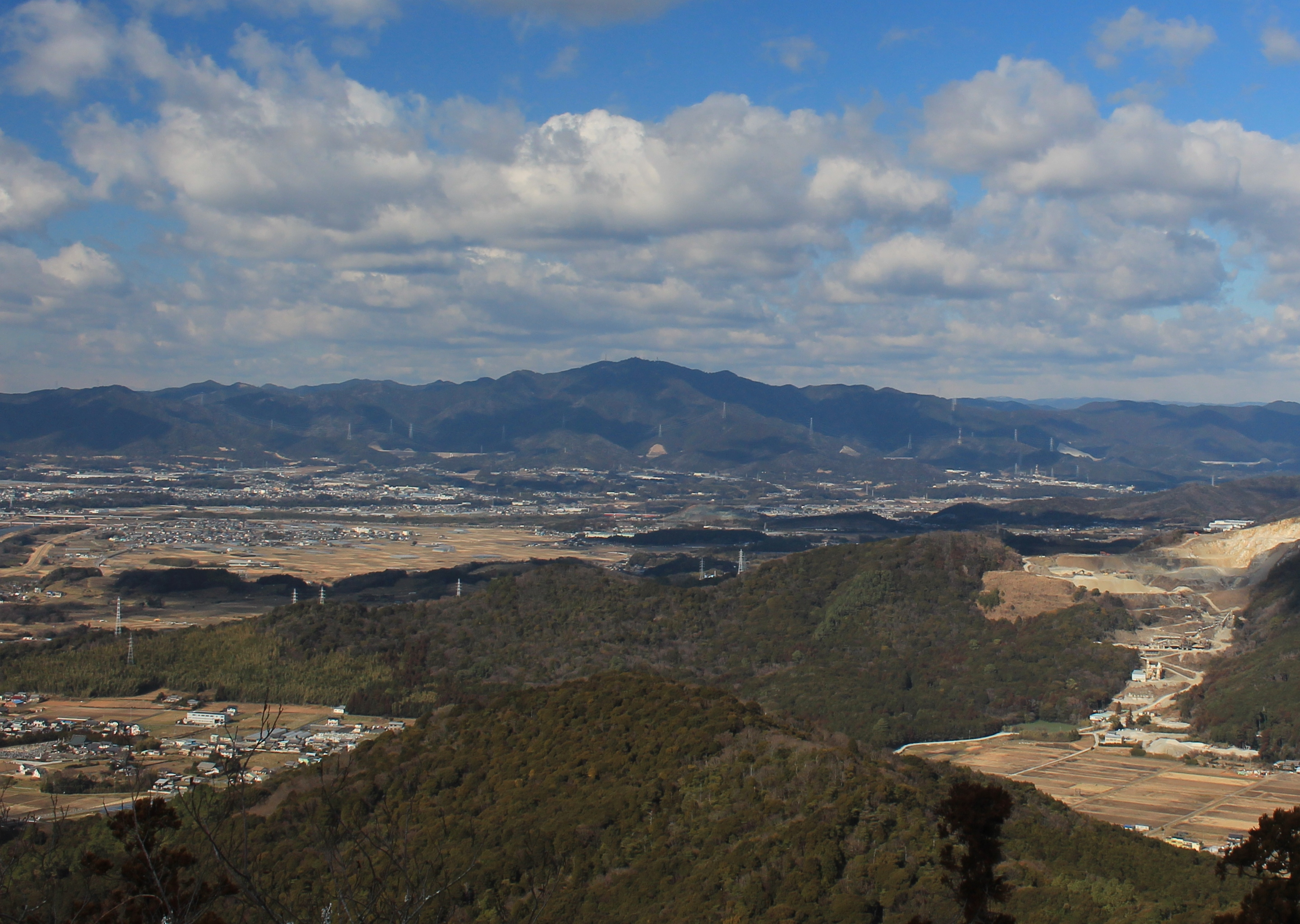 Mount Hongu (Mikawafuji) seen from Mount Ishimaki, in Aichi prefecture, Japan.